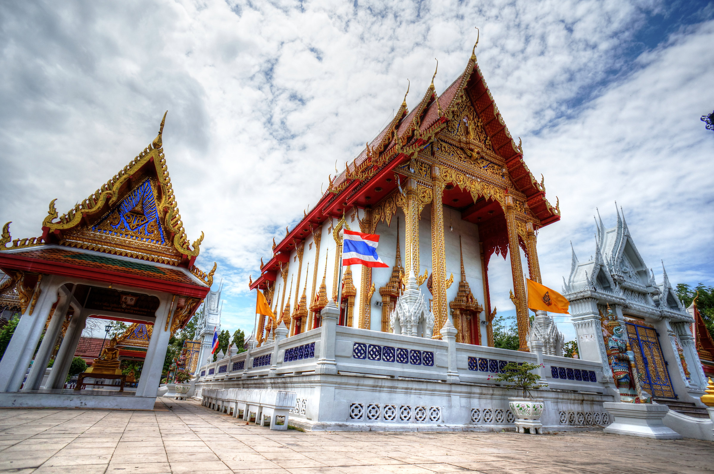 Wat Bang Phai, Bang Bua Thong District, Nonthaburi Province